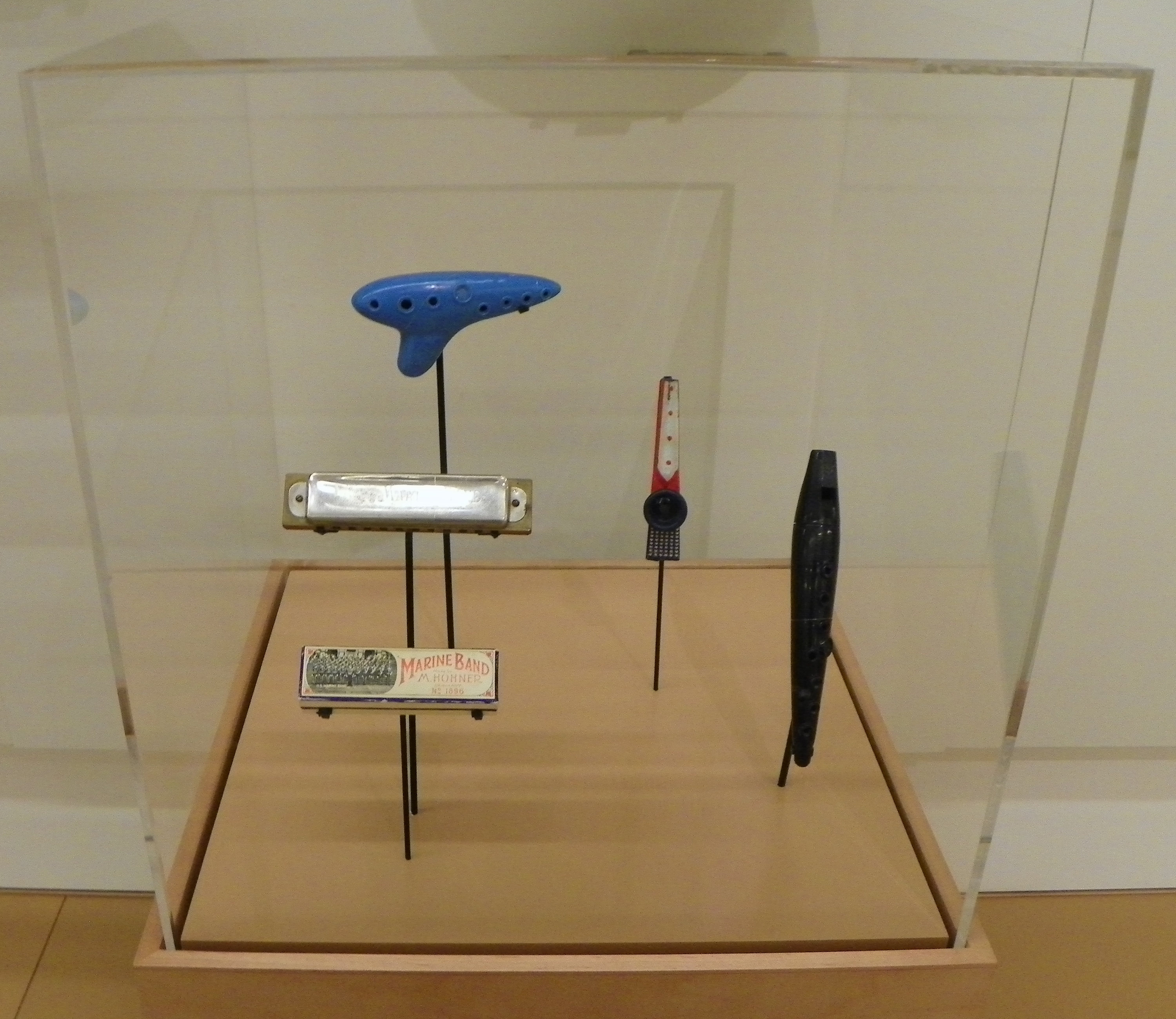 Photograph of musical instrument(s) taken at the Musical Instrument Museum (Phoenix) on 2011-04-26.